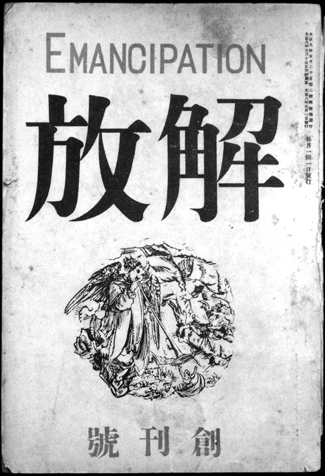 Cover of the first issue of Kaihō